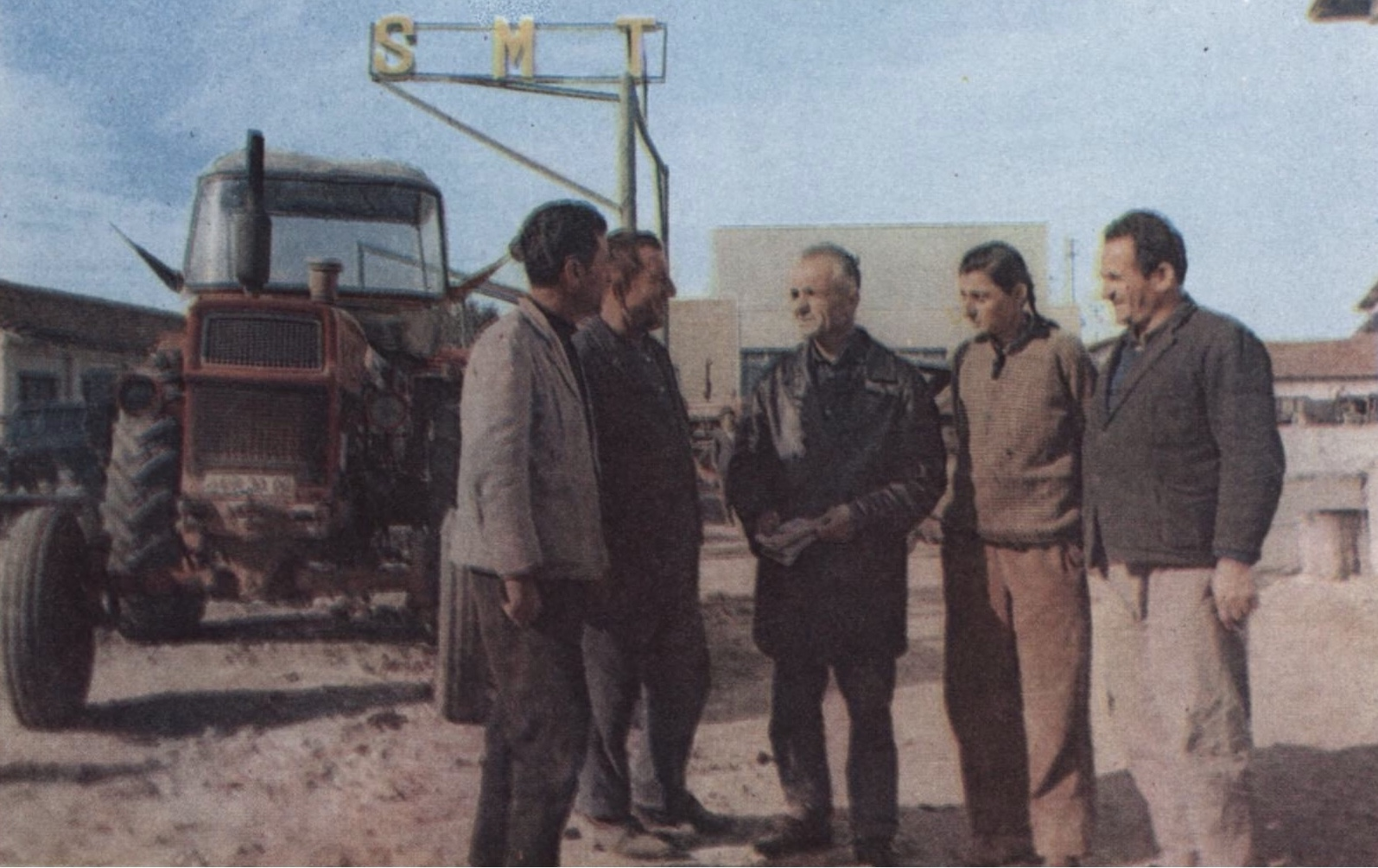 Traktoristi, Hero i Punës Socialiste, Shyqyri Kanapari, midis një grupi mekanizatorësh në SMT-në e Kavajës.